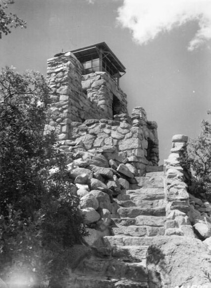 1950—Monjeau Lookout, a distinctive native stone tower built by the CCC in 1940. In the year it was built, the tower had 10,000 visitors. Photo by E. L. Perry. FS # 461597